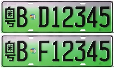 Small New Energy Vehicle License plate of China, issues since December 1, 2016.